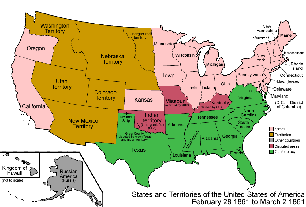 Map of the states and territories of the United States as it was from February 28 1861 to March 1861. On February 28, Colorado Territory was created from portions of Utah, New Mexico, Nebraska, and the previous Kansas Territories. On March 2 1861, Dakota Territory was split from Nebraska Territory, and gained the northern area of unorganized land; also, Nevada Territory was split from Utah Territory.